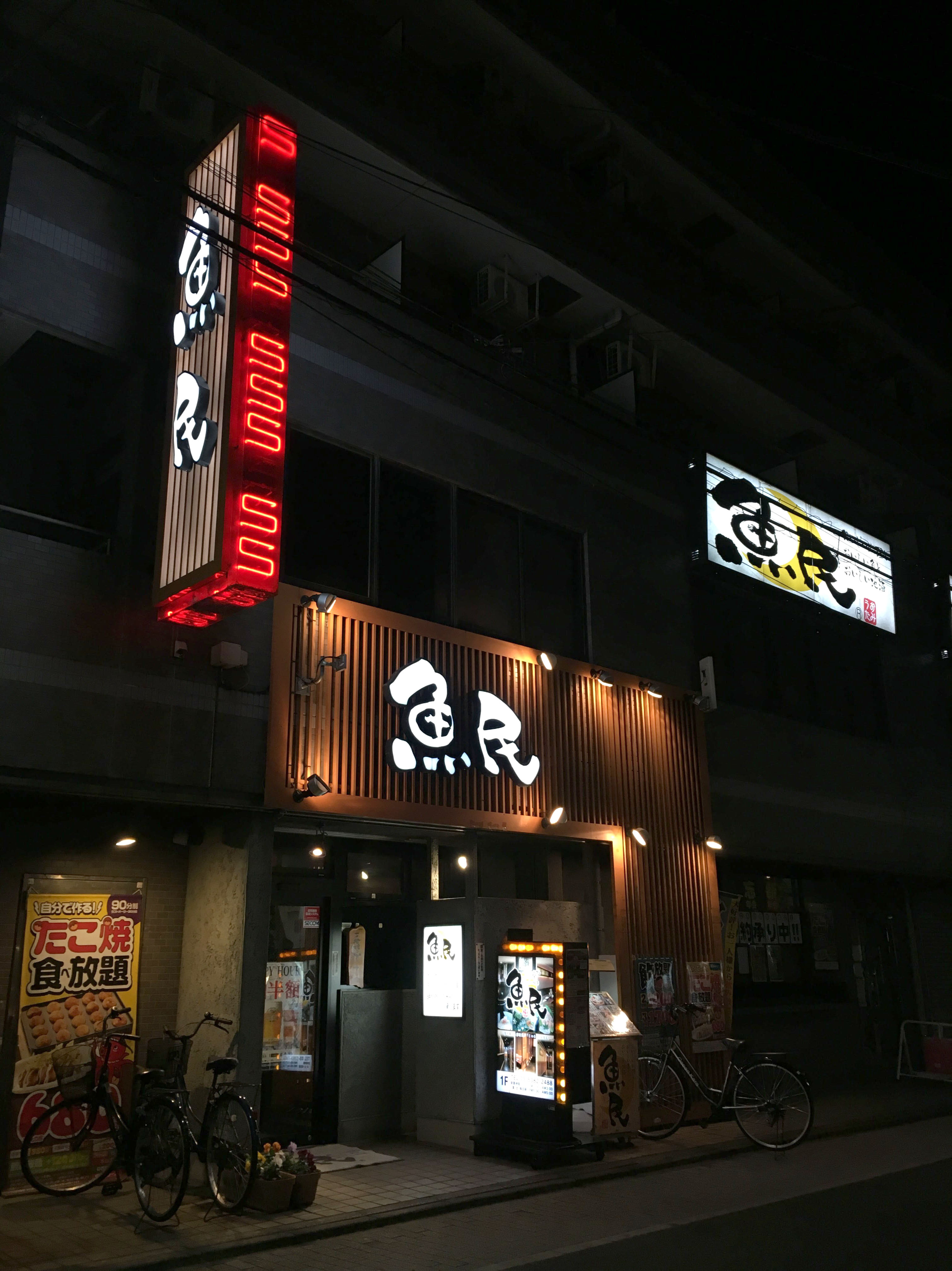 Uotami (Japanese bar chain) Kamiigusa minamiguchi ekimae branch (Tokyo, Japan)